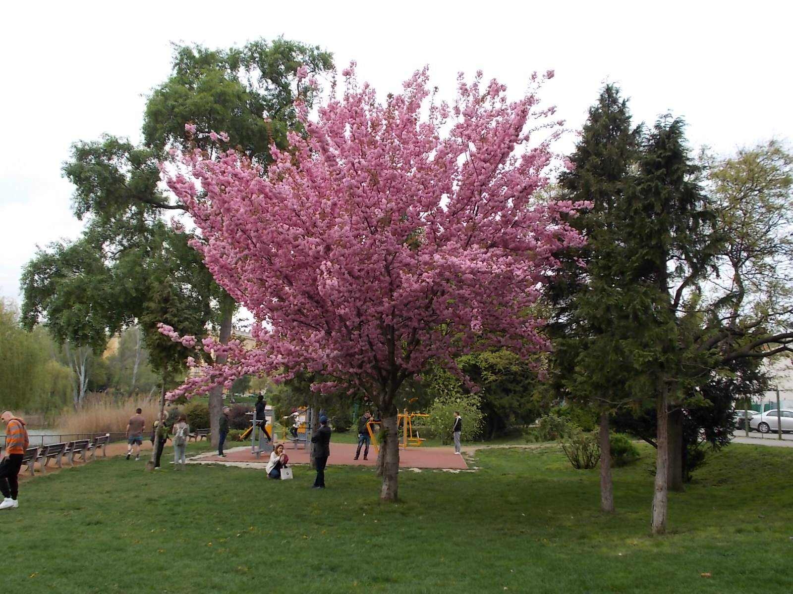 Fitness area the Feneketlen-tó (Bottomless lake) Park, Budapest District IX, Budapest.